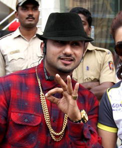 Yo Yo Honey Singh and Huma Qureshi at Celebrity Cricket League 2014 held at the DY Patil Stadium, in Mumbai, on January 25, 2014.